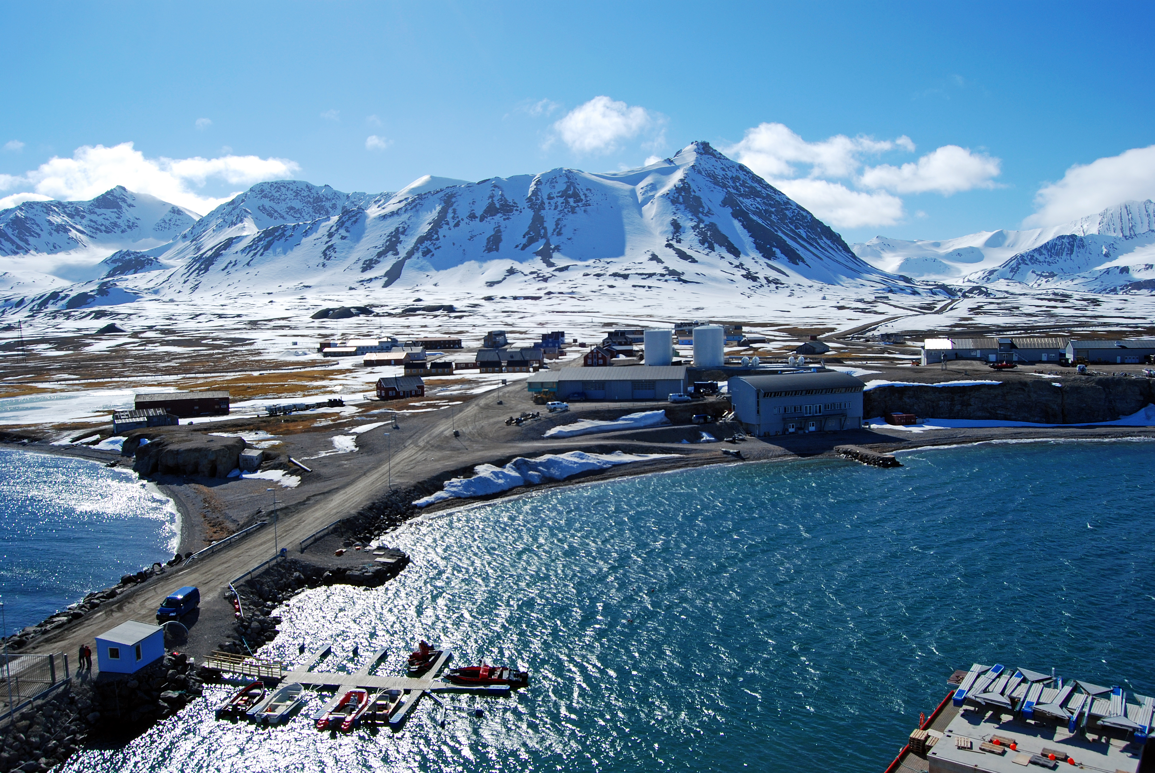 Ny-Ålesund is one of the four permanent settlements on the island of Spitsbergen in the Svalbard archipelago. It is one of the world's northernmost functional public settlement at 78°55′N 11°56′E inhabited by a permanent population of approximately 30–35 scientists and support staff